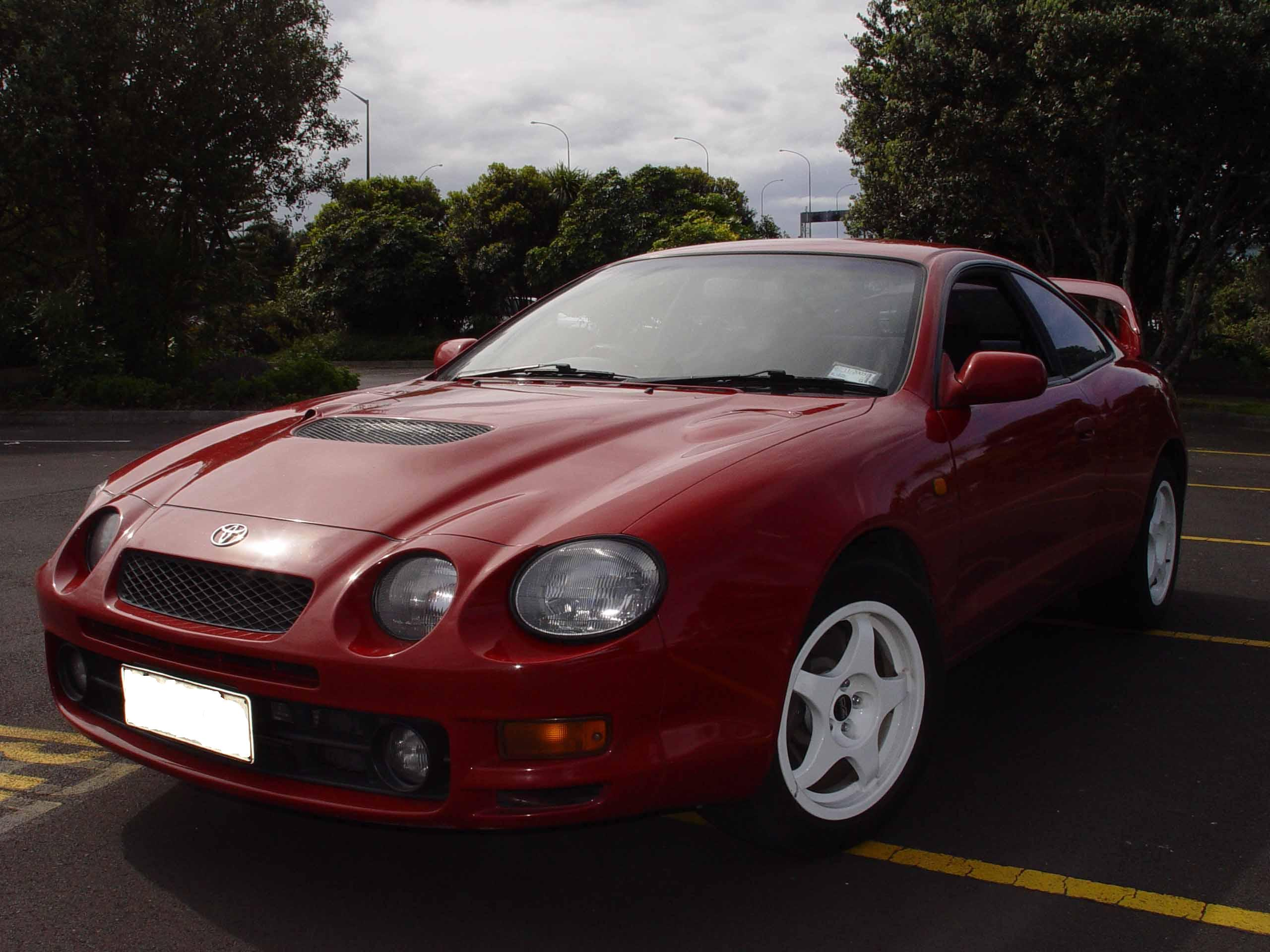 Toyota Celica GT-Four WRC (ST205) shown in Renaissance Red (colour code 3L2).